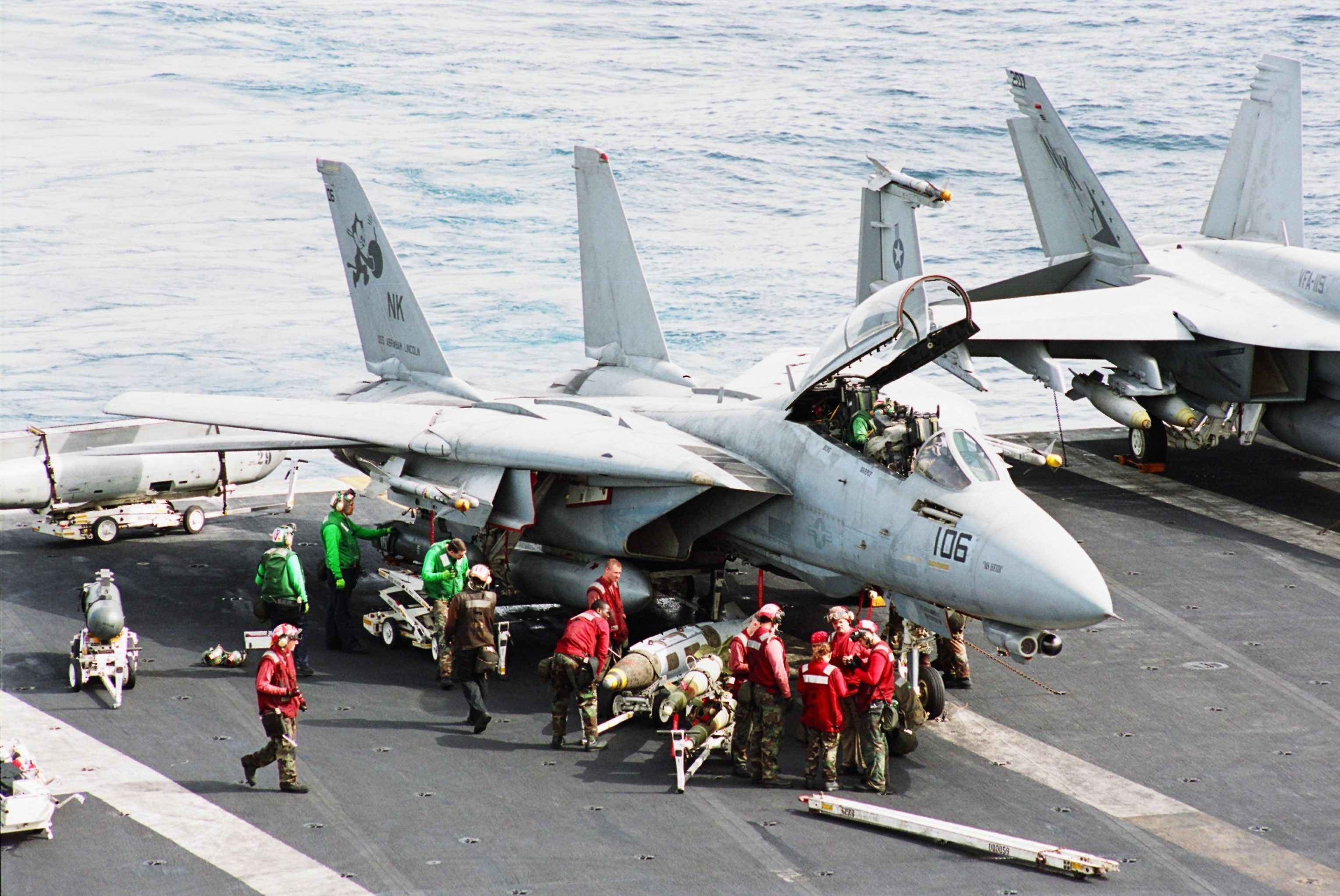 U.S. Navy sailors prepare an Grumman F-14D Tomcat from Fighter Squadron 31 for flight operations aboard USS Abrahm Lincoln (CVN-72). Lincoln and her embarked aircraft were deployed in the Arabian Gulf in support of Operation "Iraqi Freedom".